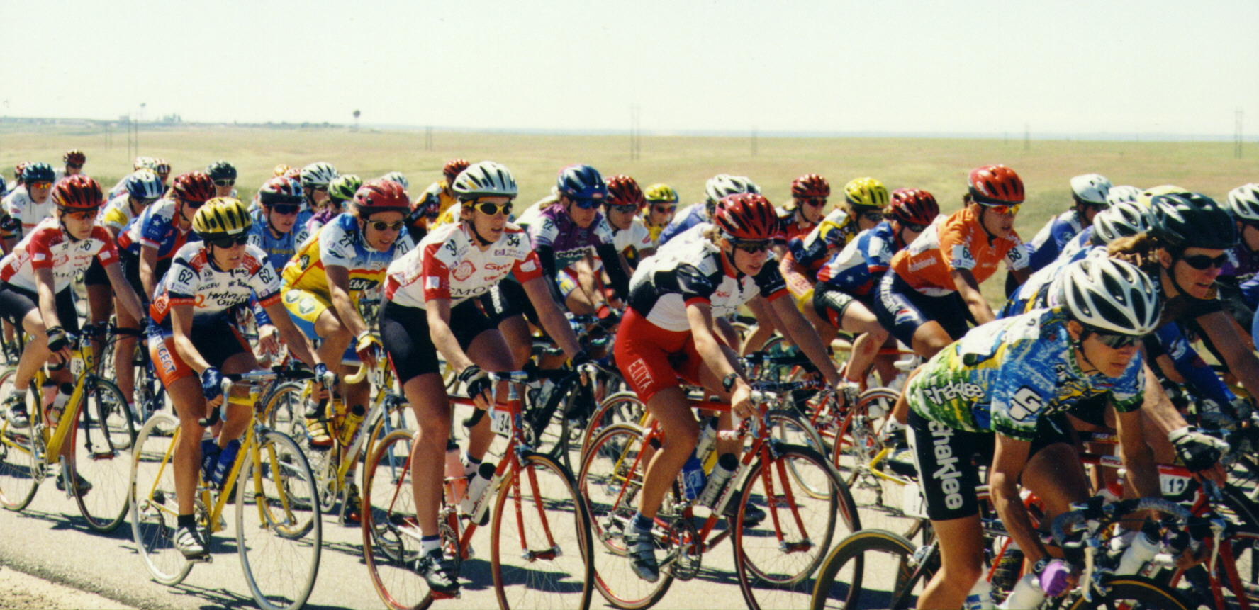 The women's peloton heads out onto the race course at the start of the Boise to Idaho City stage of the 1998 Women's Challenge stage race.